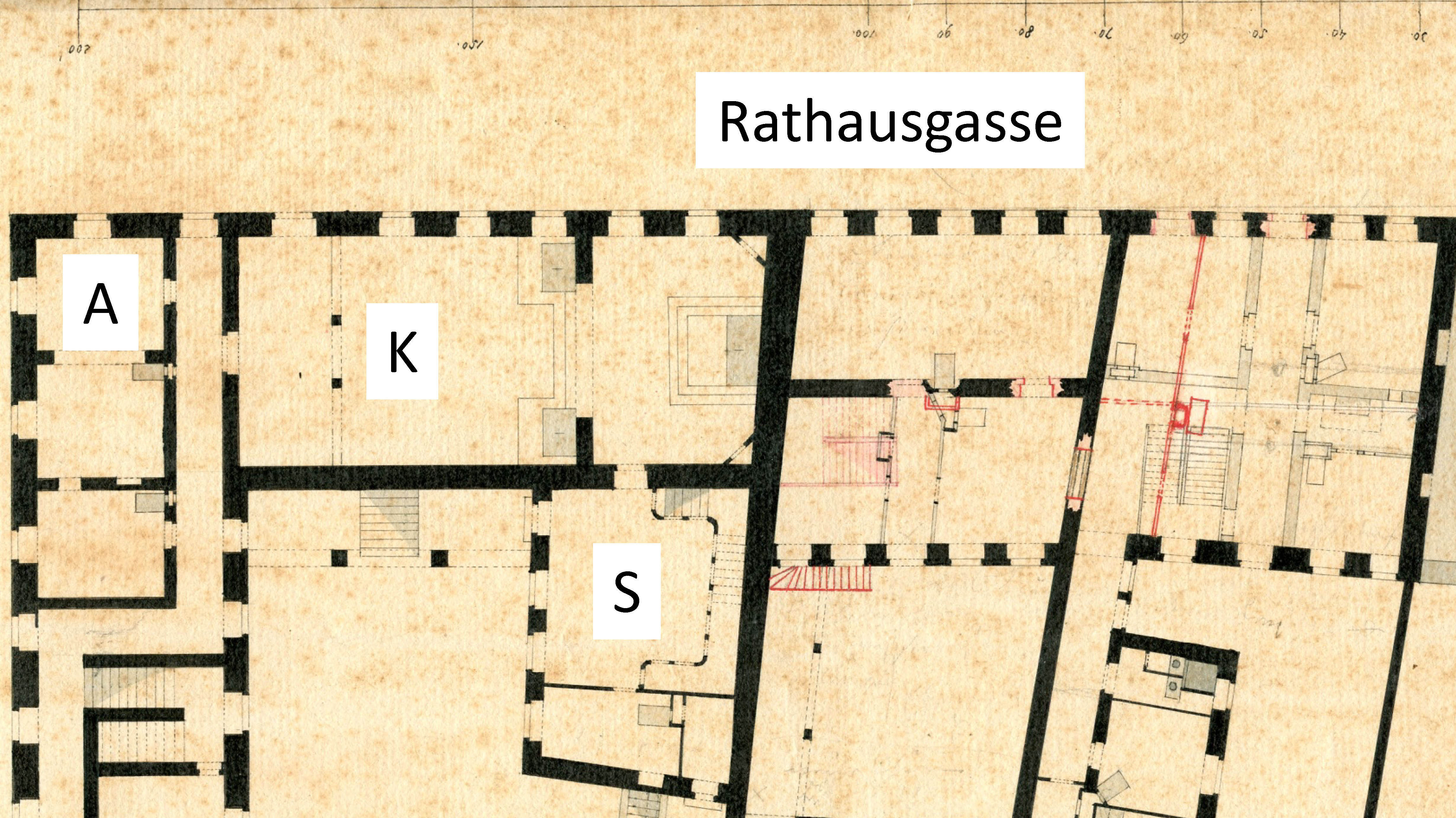 Groundplan of the church of St. Ursula, Freiburg im Breisgau, Germany